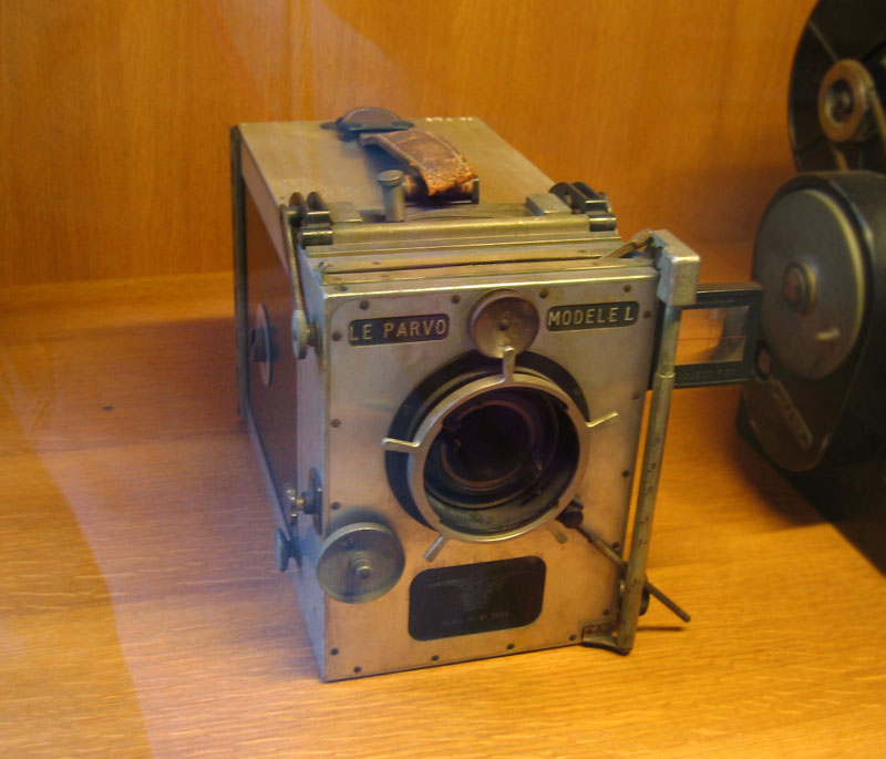 Debrie movie camera "Le Parvo" (1928)- Arts et Métiers Museum, Paris